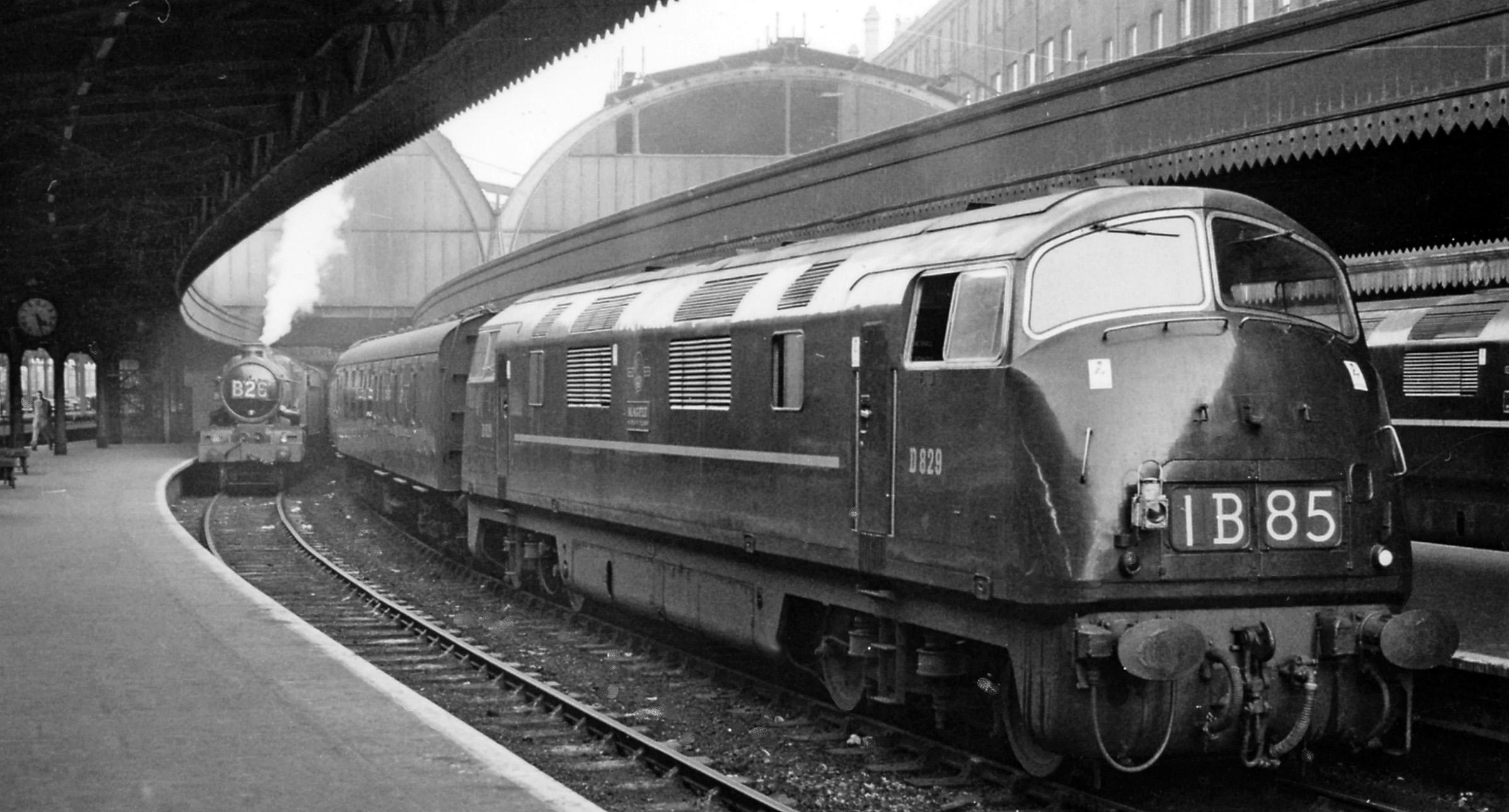 A 'Warship' Diesel waits to leave Paddington on a Plymouth express. View SE, towards the buffer-stops. Swindon-built 2,200hp 'Warship' Type 4 Bo-Bo Disel-hydraulic No. D829 'Magpie' heads the 16.30 at Platform 4, while another 'Warship' is at Platform 3, but there is still a 'Castle' on another Down express at Platform 5.